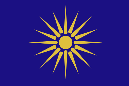 The Vergina Sun flag as used in Greek Macedonia.